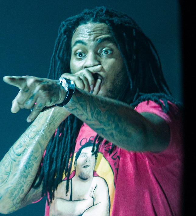 Waka Flocka Flame performing in October 2016 in Iowa